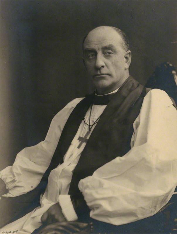 Vintage bromide print of Michael Bolton Furse (1870-1955) Bishop of St Albans.